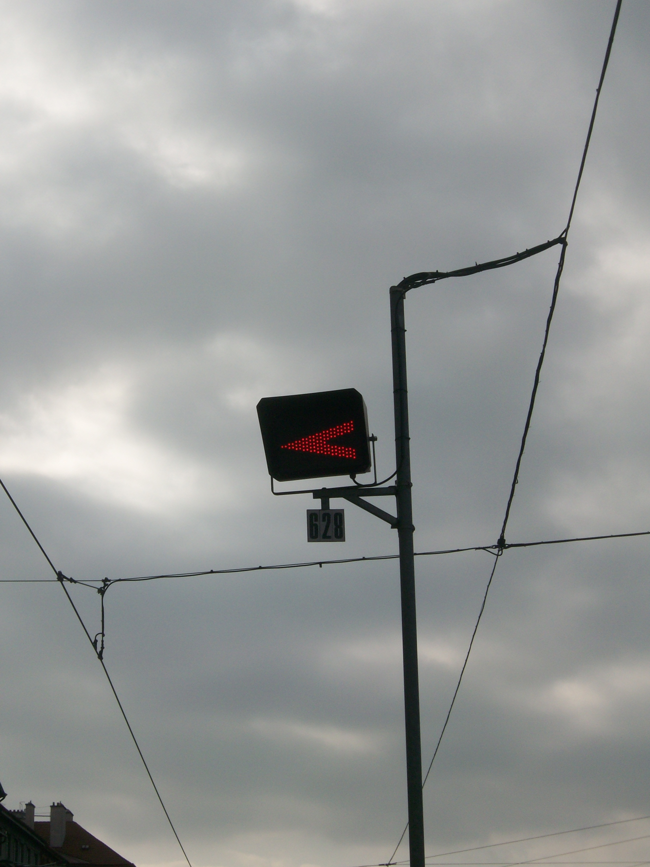 Tram signals in Prague